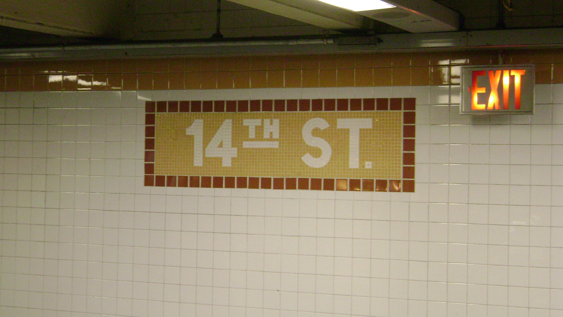 The 14th Street tiled tablet, a staple among most subway stations in New York City.